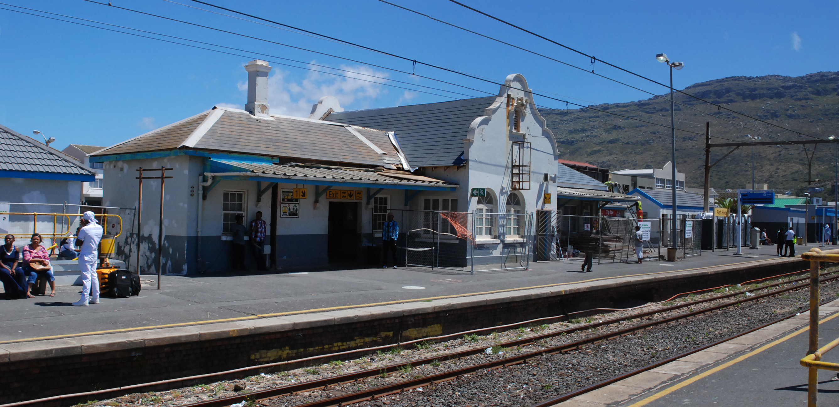 Fish Hoek station, track side, Cape Province, South Africa.